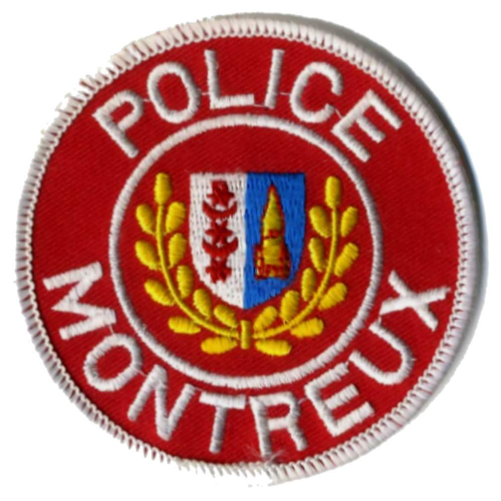 Insignia from my collection of SWITZERLAND Law Enforcement Agencies. This agency is now now part of Police Riveira, a merger of Municipal Police forces in the area Switzerland is a Federation of 26 "States"(Carton; Kanton; Cantone - dependant upon whether French, German or Italian language predominates). Each "State" has a Police force, as do some municipalities within the "State". The municipal police of Switzerland are a series of separate forces maintained by the municipalities of each canton. There are between 100 and 300 municipal police forces. Most of these forces are responsible for general law and order and parking enforcement only. In some larger cities, the municipal police also carry out traffic control and in Zurich, Winterthur and Lausanne they provide a full policing service. Municipal police forces send their recruits to the same regional police academies as the cantons do.